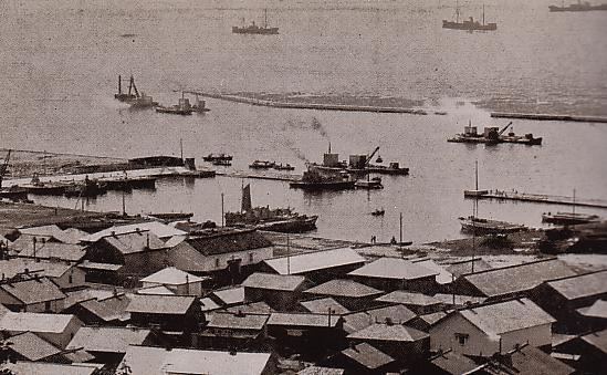 View of Honto(Nevelsk Невельск)